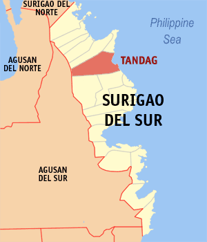 Map of the Surigao del Sur showing the location of Tandag